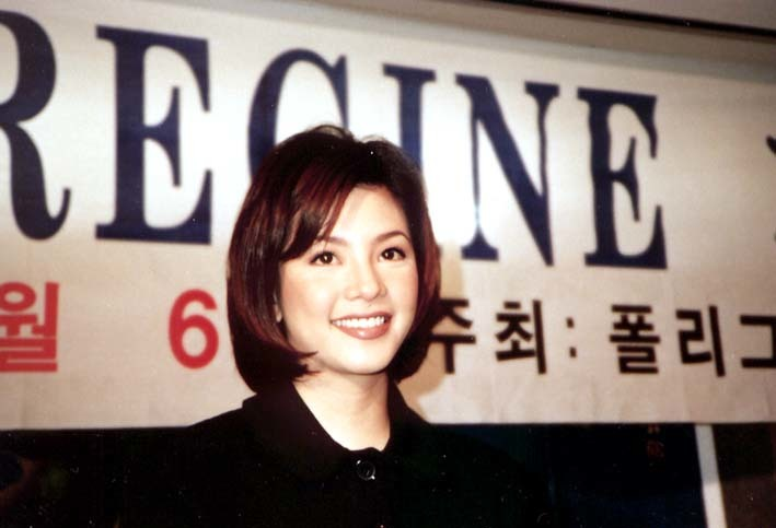 Regine Velasquez in Korea for the launch of her album Retro in 1996